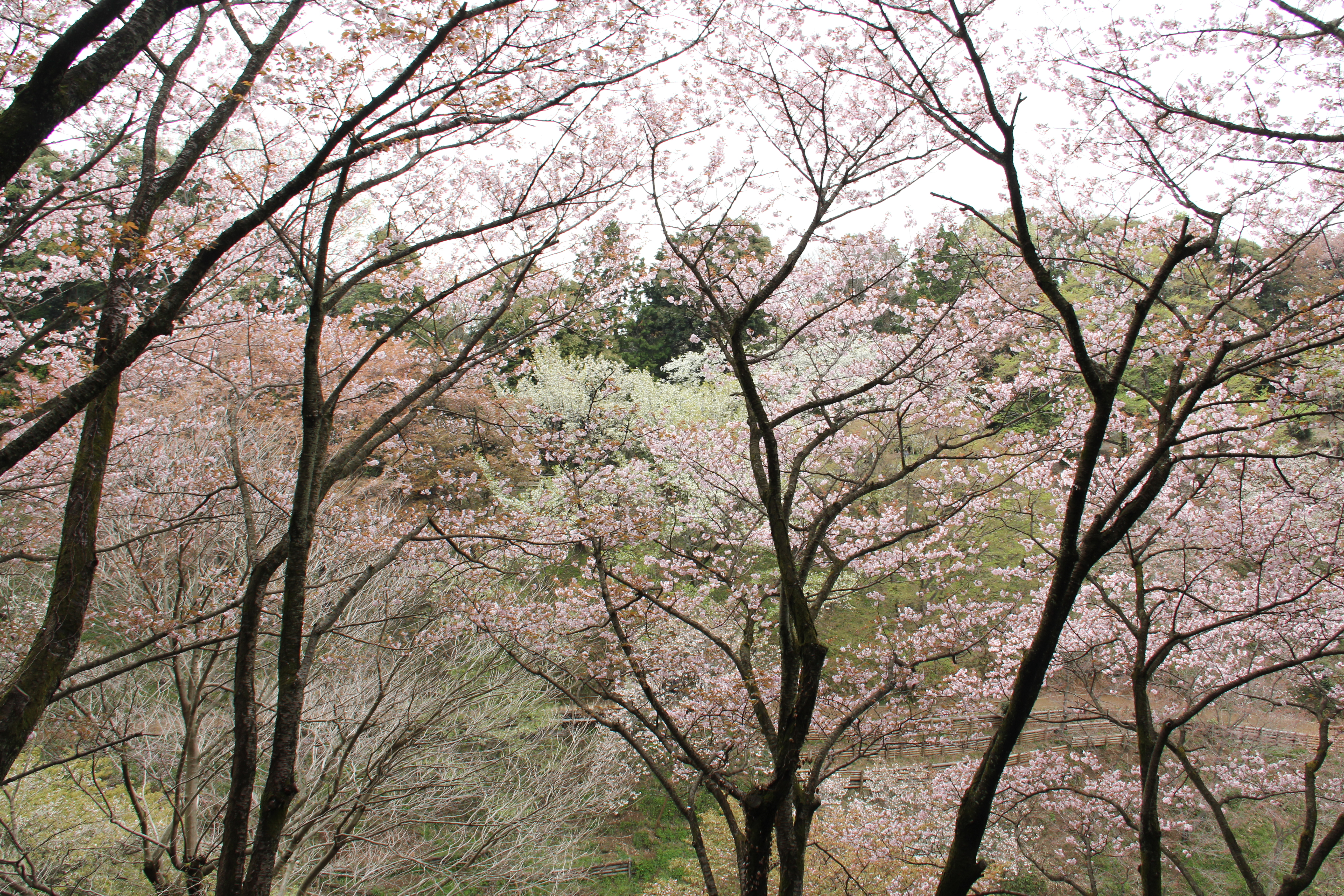 Tama Forest Science Garden